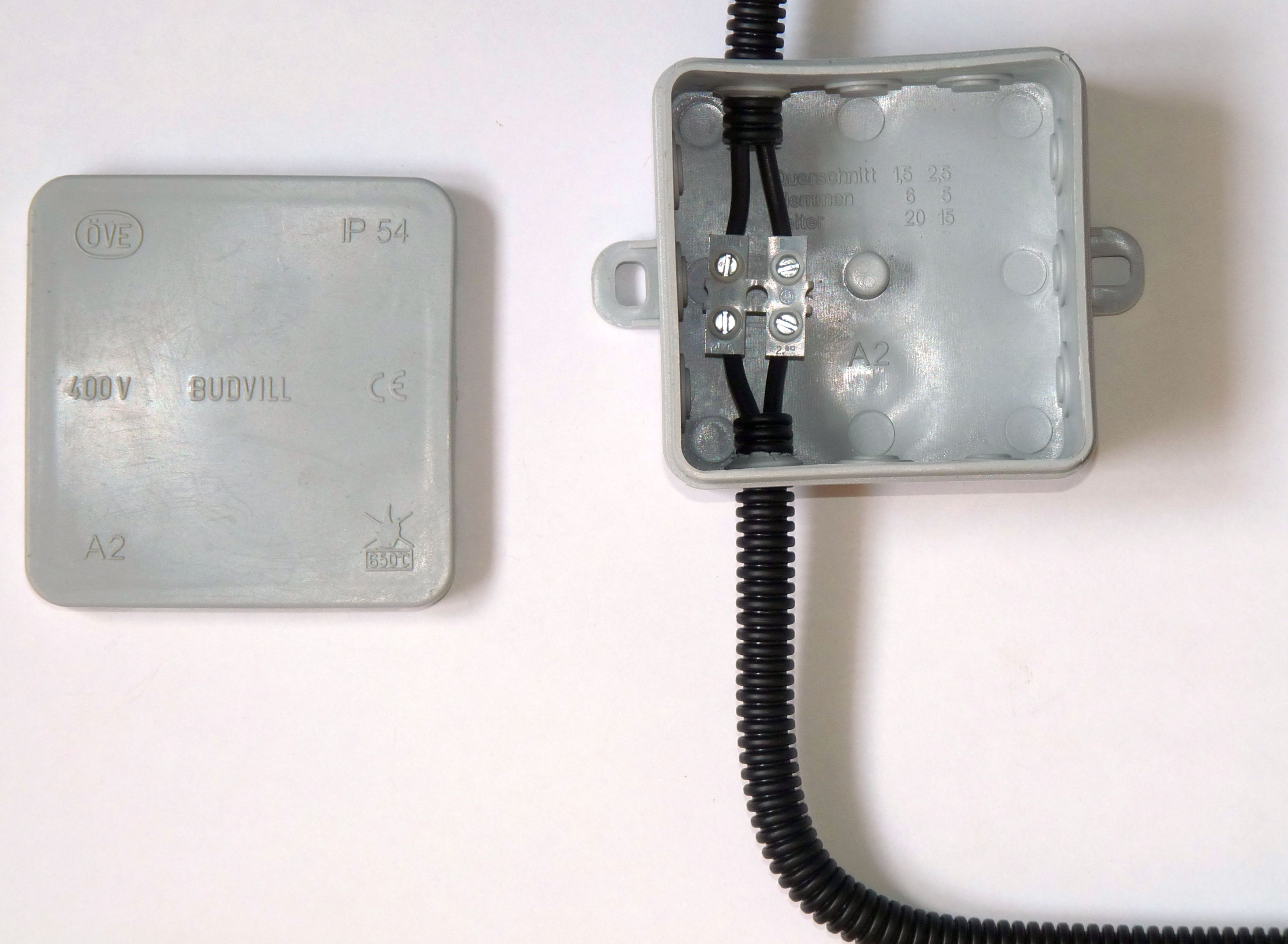 How to install wiring in wet rooms, such as showers? - There should be reliable protection against water contacting metal parts (which are under voltage). To do this, the cable should be placed inside conduit, the connections should be made - using suitable electrical connection terminals - inside a junction box and the joining between conduit and junction box should be hermetically sealed. If necessary, (e.g. should you damage the conduit during sealing or cut superfluous place making hole), use the fitting and nut with rubber ring. To be region-neutral, I have used two black wires, but you should use the colors appropriate to your region.